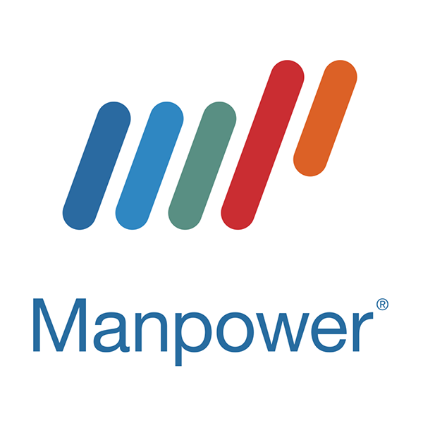 Former Manpower Inc. logo in use from 2006 to 2011. This logo became the Manpower brand logo with slight changes to color in 2011 when the company changed its name to ManpowerGroup